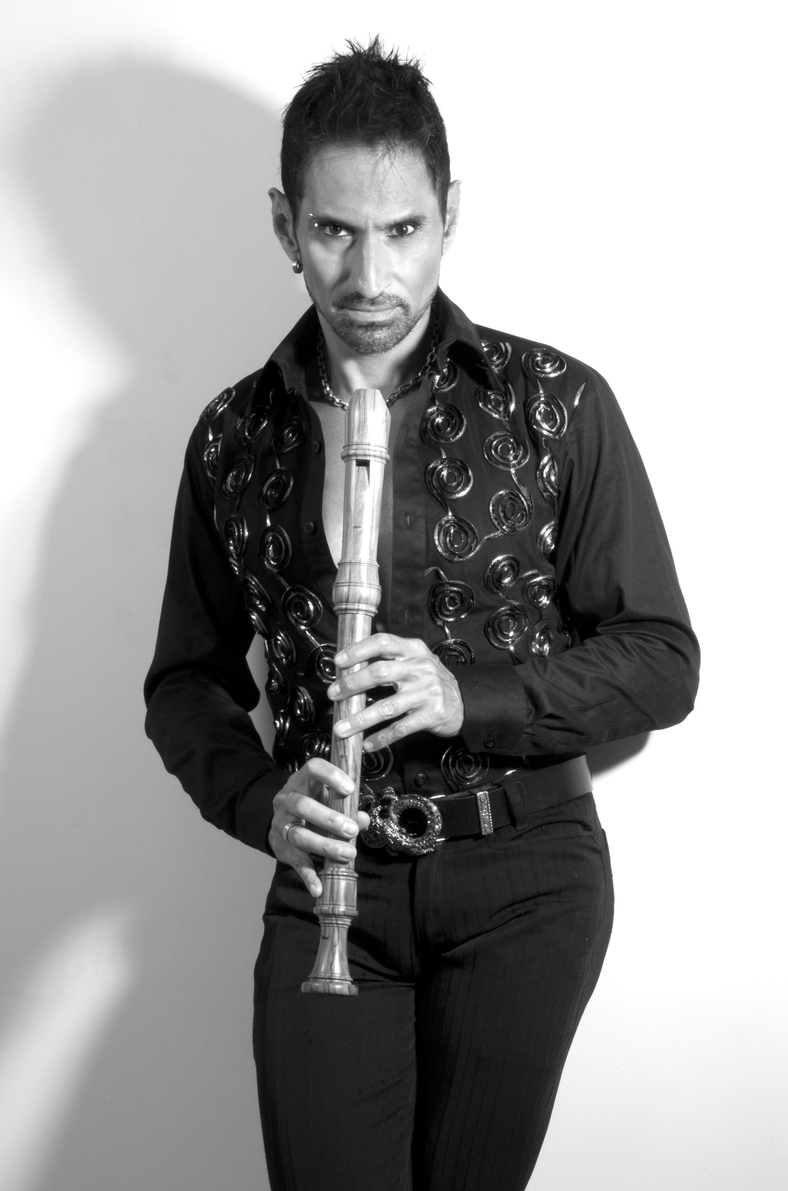 Mexican flutist Horacio Franco.